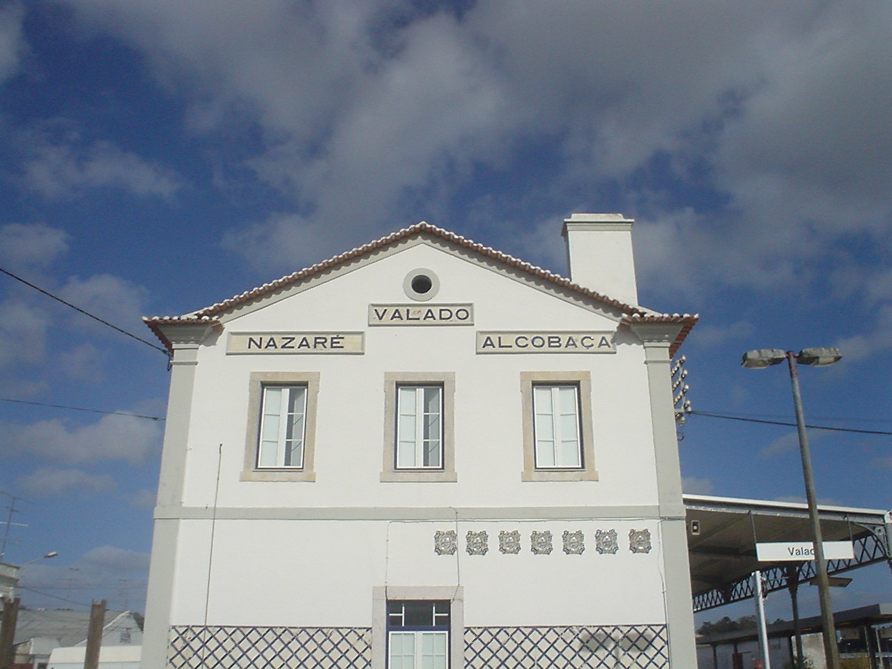 Valado train station on Linha do Oeste railway, Valado, Portugal